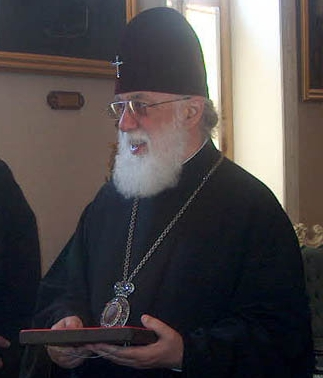 Ilia II, Patriarch of the Georgian Orthodox and Apostolic Church, Tbilisi, Georgia